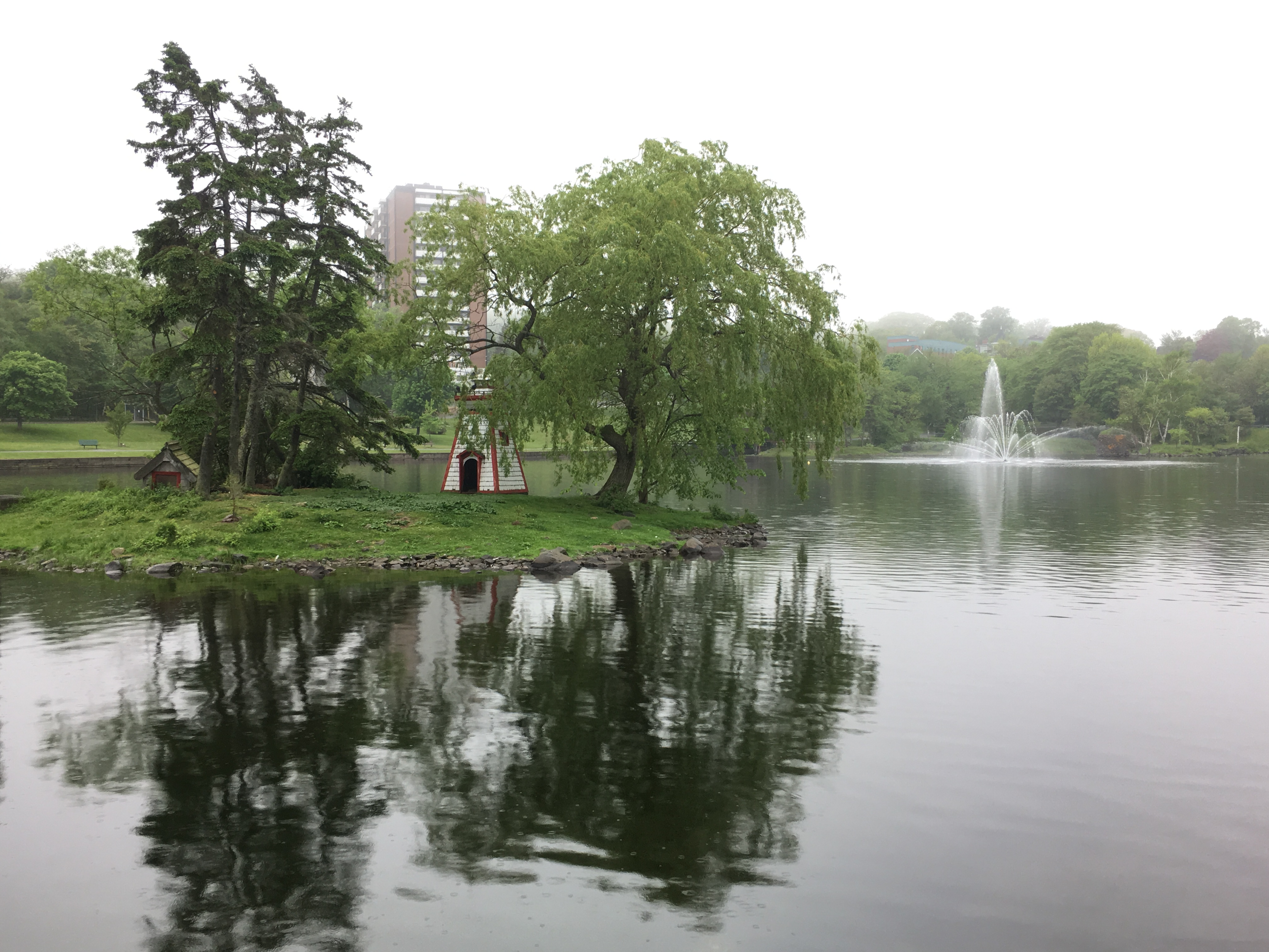 Sullivan’s Pond, located in the city of Dartmouth, Nova Scotia, is part of the historic Shubenacadie Canal System, which connects Halifax Harbour with the Bay of Fundy. This photo was taken in a protected area in Canada, Wikidata item Sullivan's Pond (Q7332637)